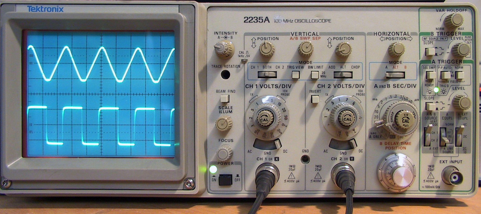 Oscilloscope showing sine and square waves